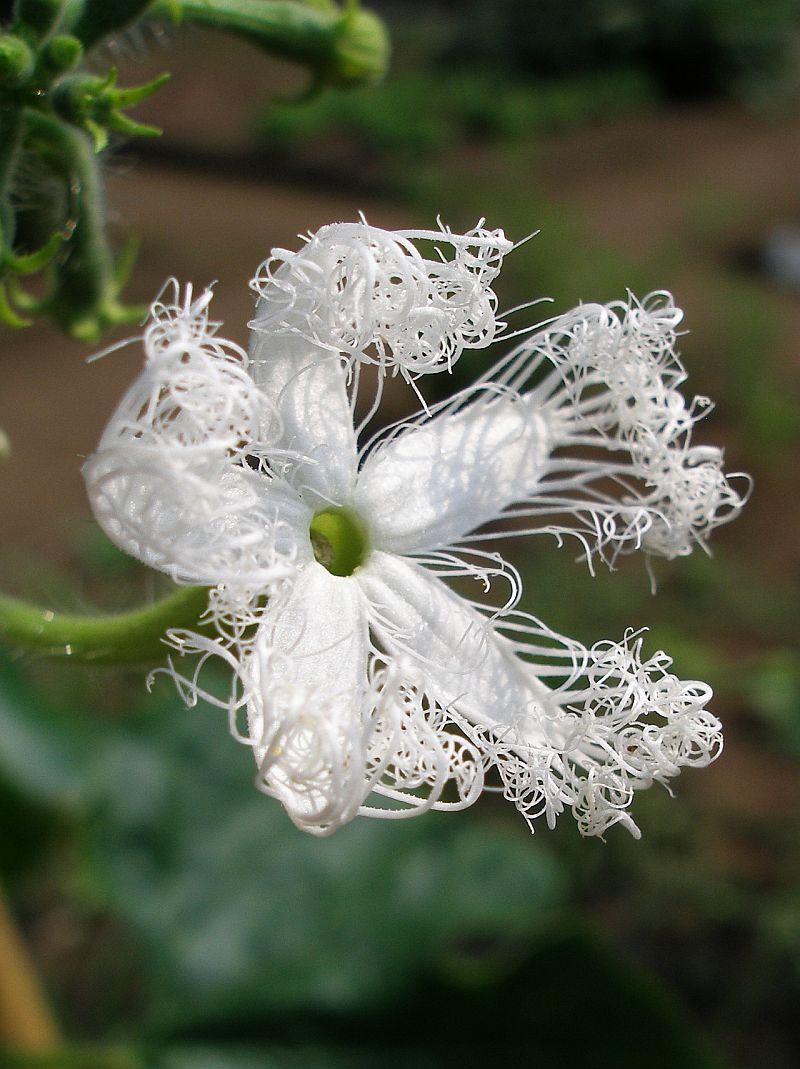 Snake cucumber flower Trichosanthes cucumerina